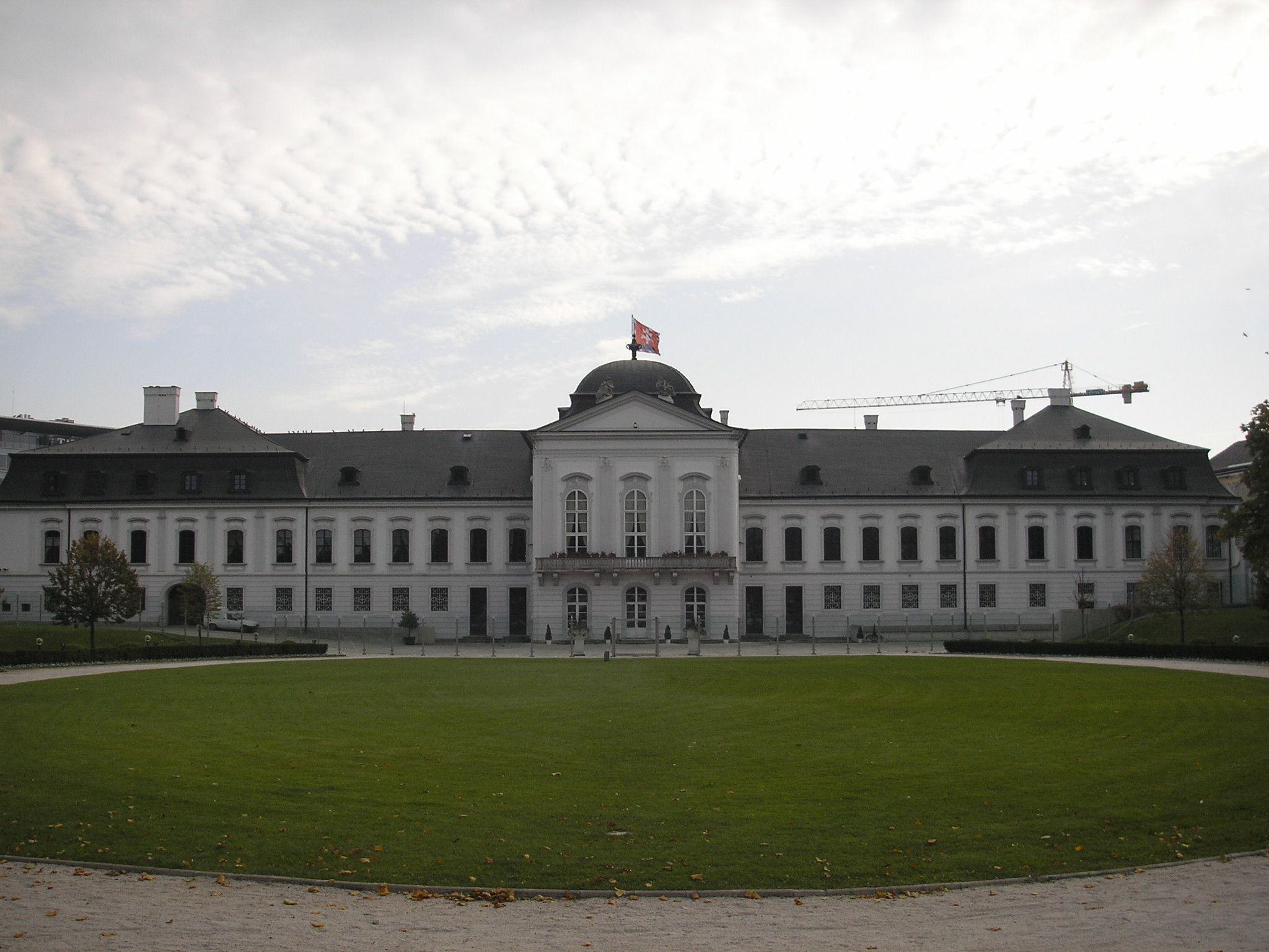 Grassalkovich Palace (Grasalkovicov palác) in Bratislava. Seat of the President of Slovakia.